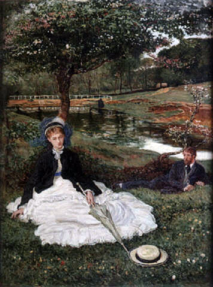 "A spring afternoon in the park", Oil on Canvas, 16 x 12 in. / 40.6 x 30.4 cm.